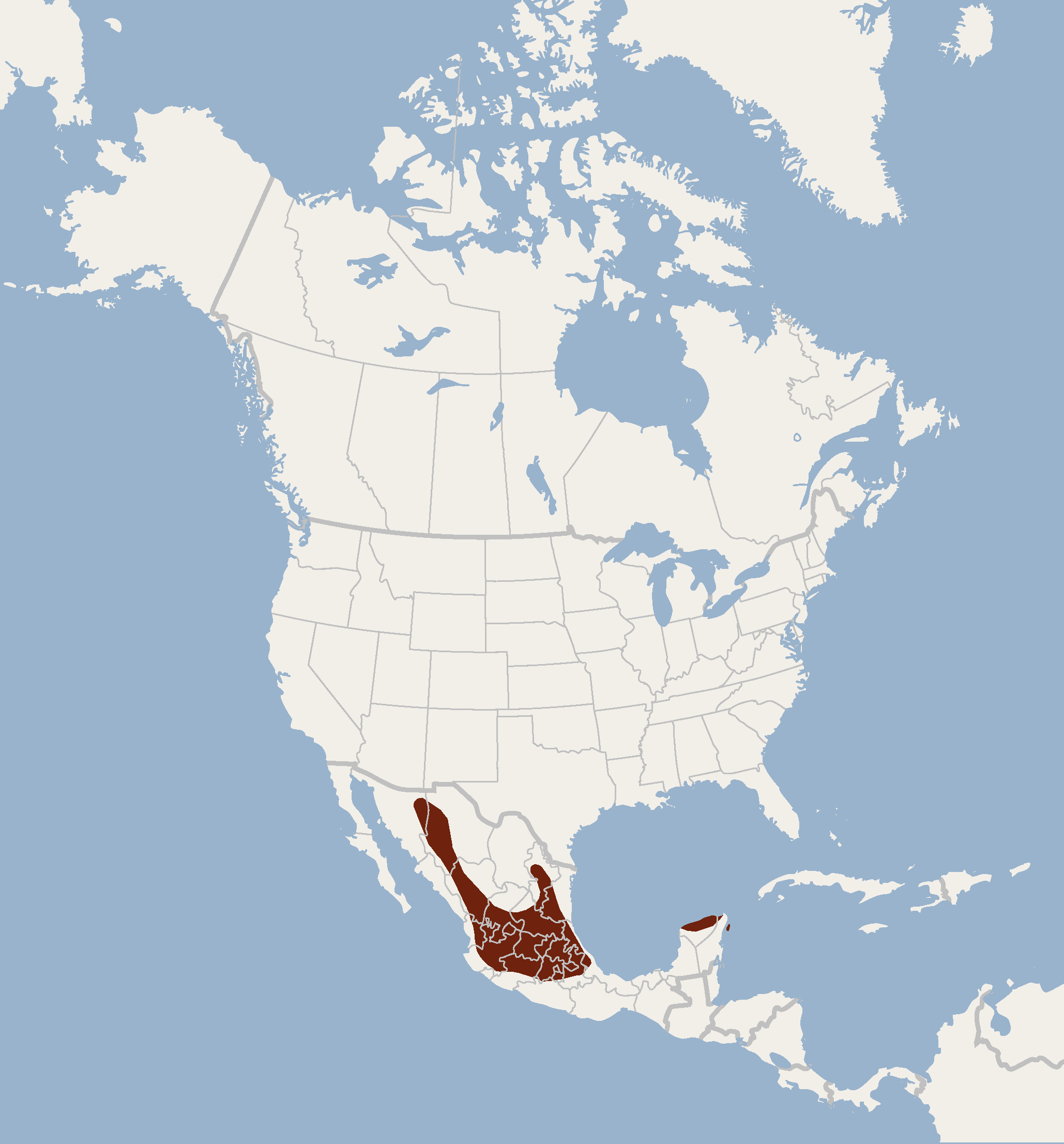 According to